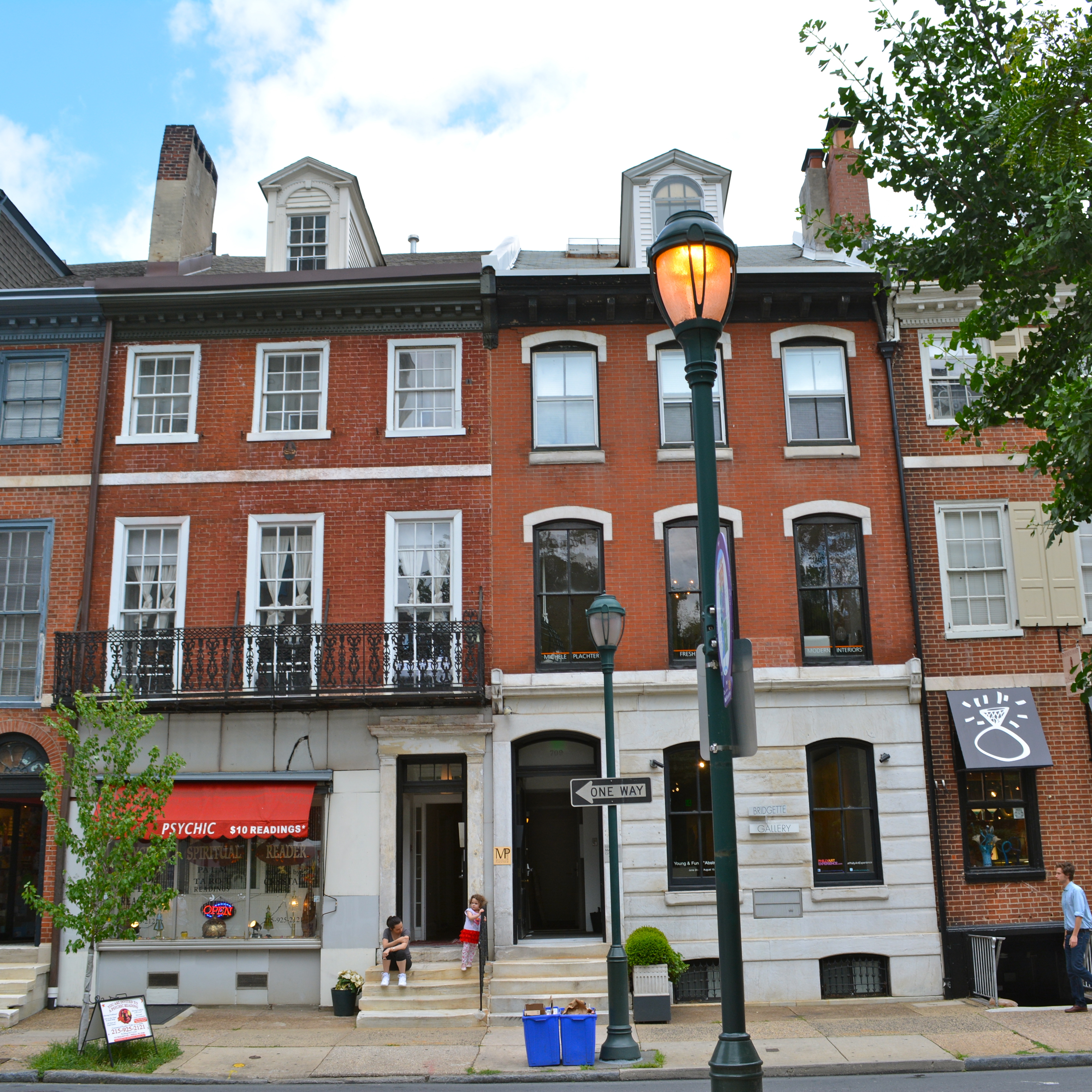 Building on Walnut Street in Philadelphia, Pennsylvania. Walnut runs immediately south of independence Hall and is considered the northern border of the Society Hill neighborhood